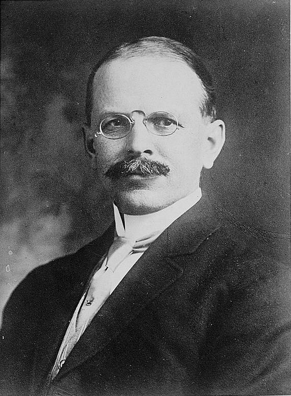 Addison [T. Smith], Idaho